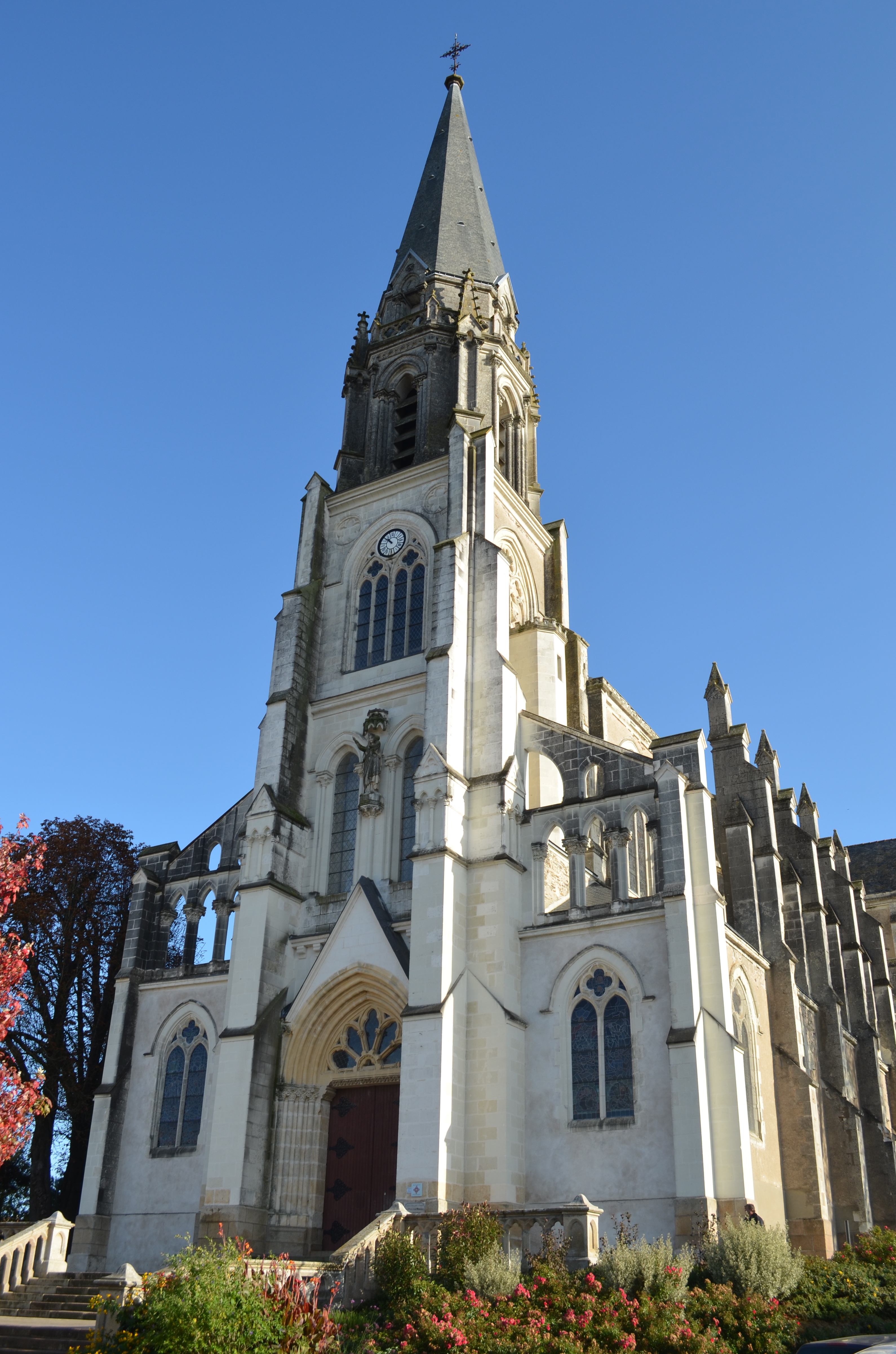 Church Notre-Dame of Beaupréau - Maine-et-Loire, France .